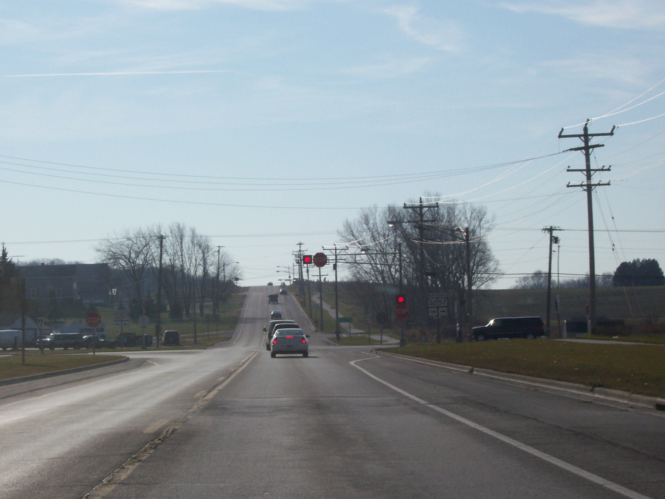 Category:Images of Wisconsin highways (Original text: Looking south at the intersection of Wisconsin Highway 57 and Wisconsin Highway 67 in Kiel, Wisconsin.) The intersection has been reconfigured as a roundabout.